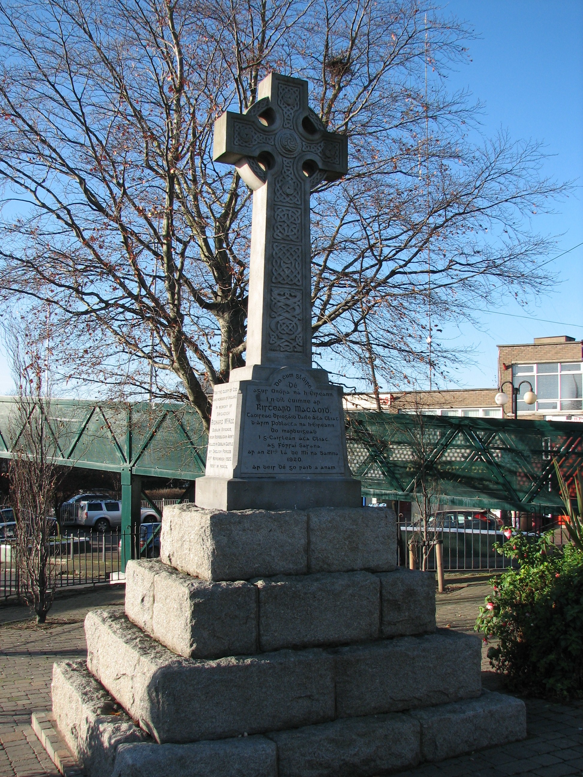 Dick McKee Memorial Finglas Village, Finglas, was officially unveiled by Eamonn De Valera 10 June 1951. I n the townland of Finglas East, in the civil parish of Finglas, in the barony of Castleknock.